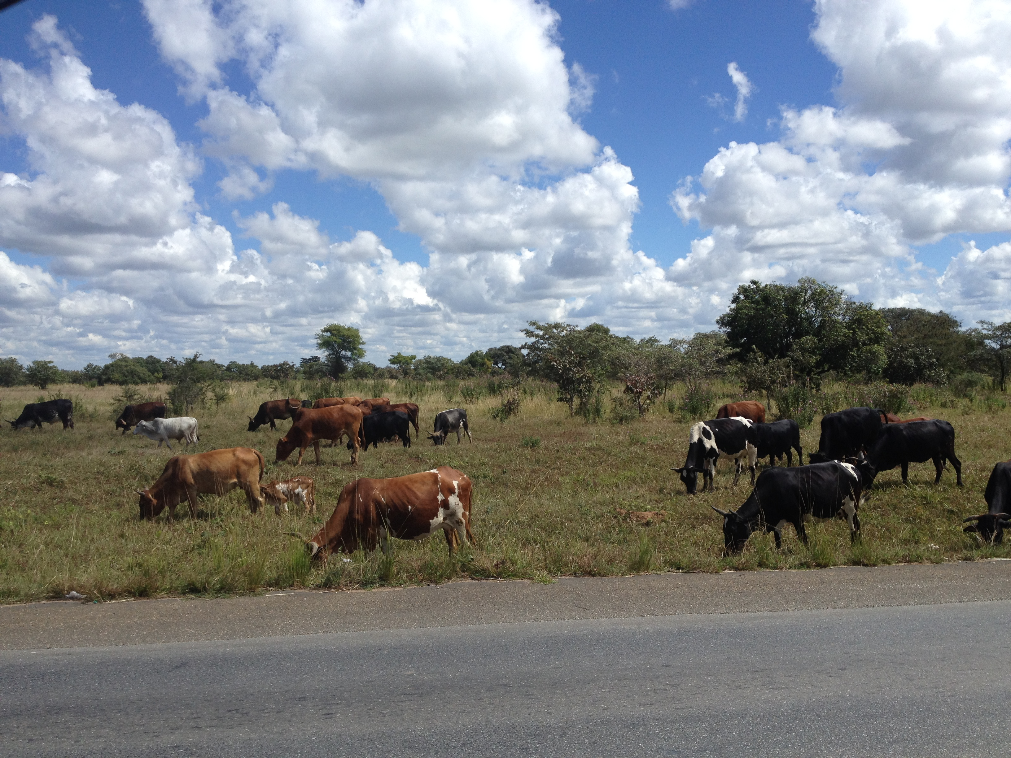 cows grazing on the side of the road This is an image with the theme "Africa on the Move or Transport" from: Zambia